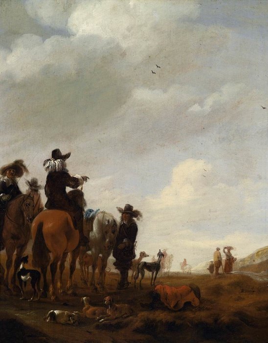 Rest, Hunting Party